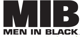 Logo for the film "Men In Black" (1997).